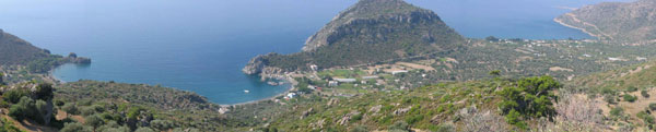 Datça.